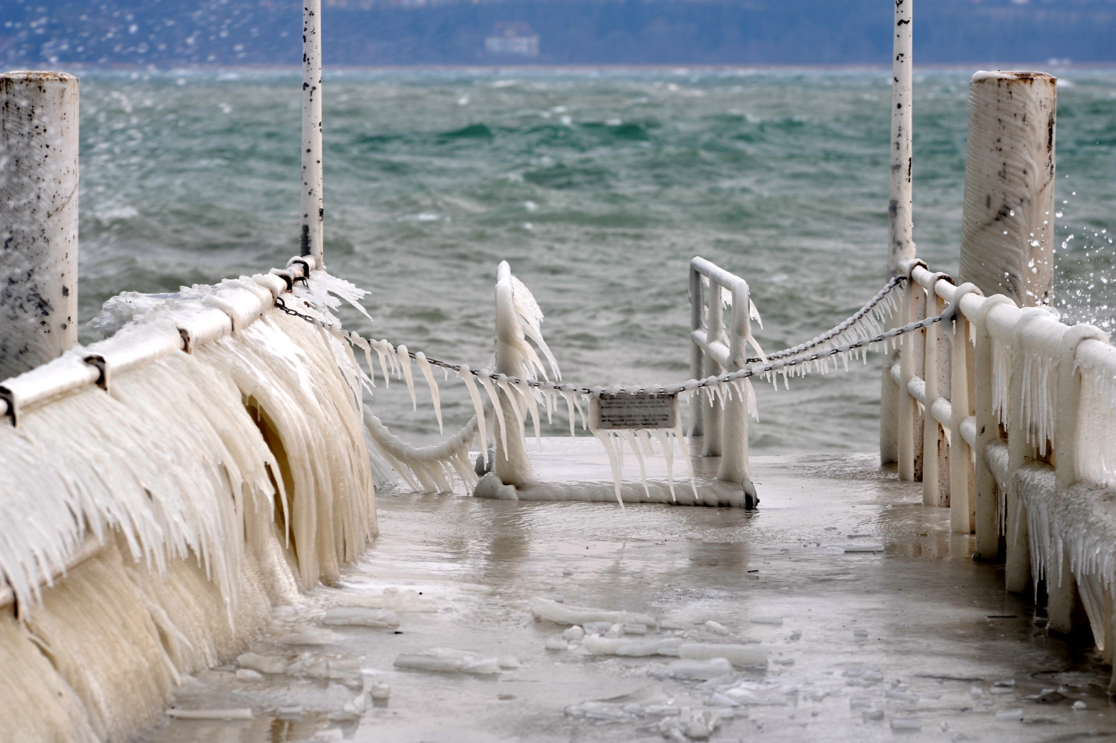 Pier of Grandson; Vaud, Switzerland.